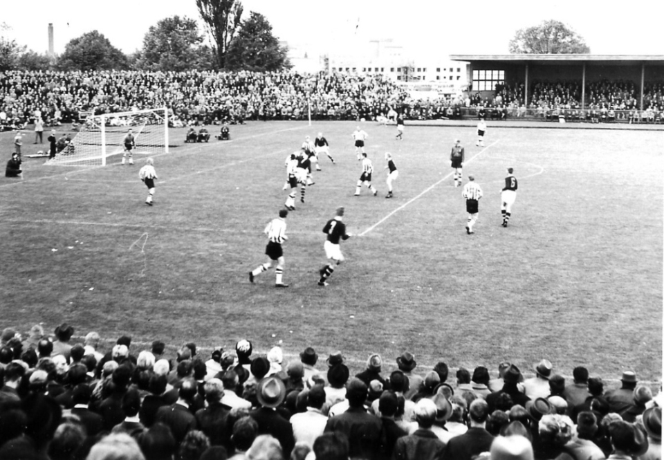 Landskrona BoIS vs. AIK on Landskrona IP in a qualification match to Allsvenskan in 1962. Photo by Erik Jönsson.